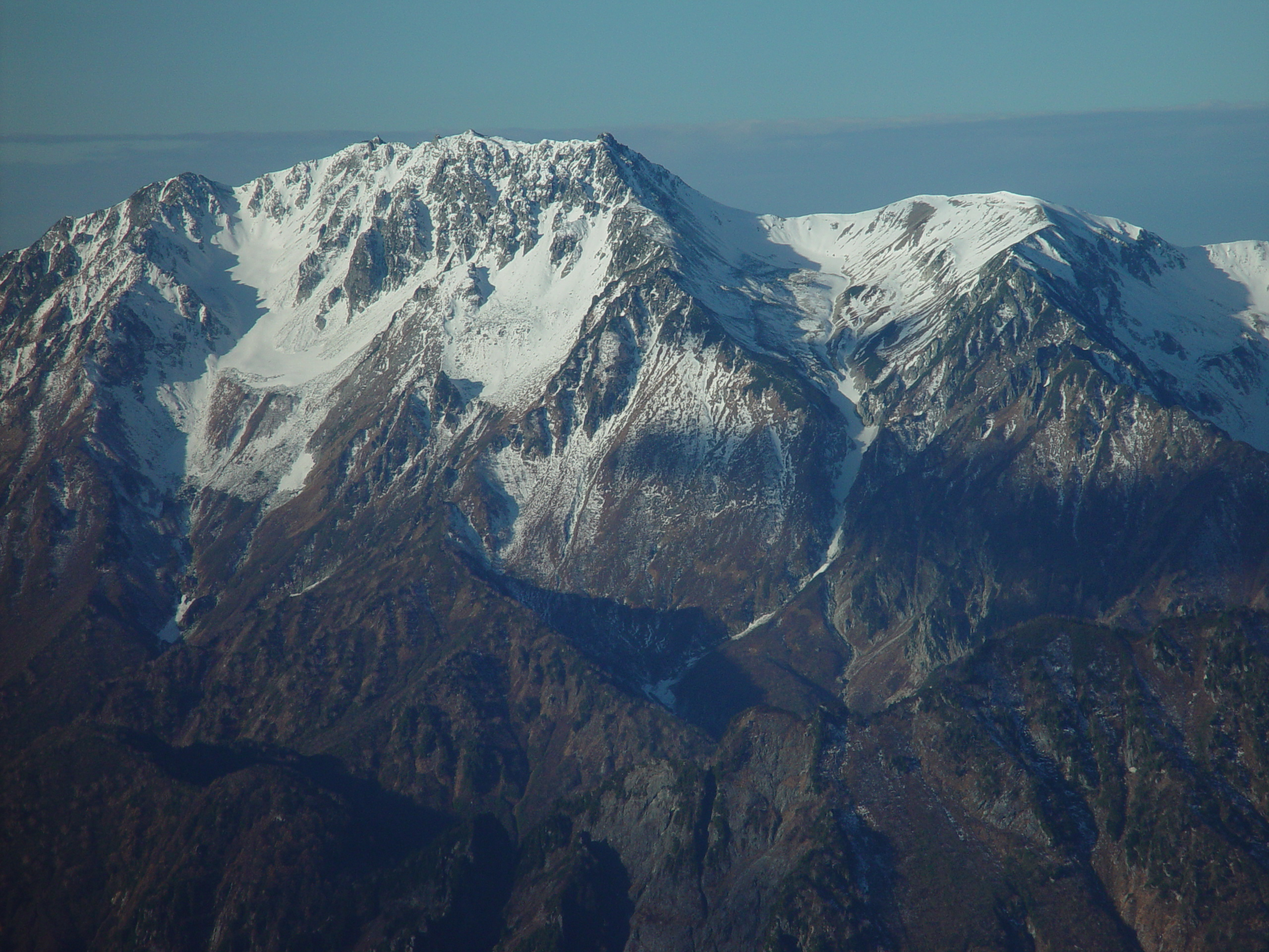 Mount Tate and Mount Masago seen from Mount Kashimayari, in Hida Mountains, Japan.